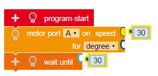 Each NEPO block has a typ. The typ of a block is represented by the coloured output/input connector. In this picture the sensor action block and the wait block have different typs.